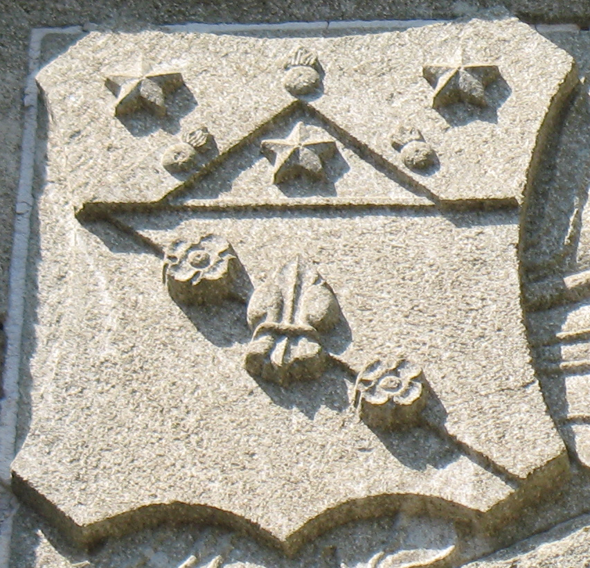 Coat of Arms Family Vorontsov, the arch of the central gate of the Vorontsov Palace in the Crimea, Ukraine. Log in to the English yard.